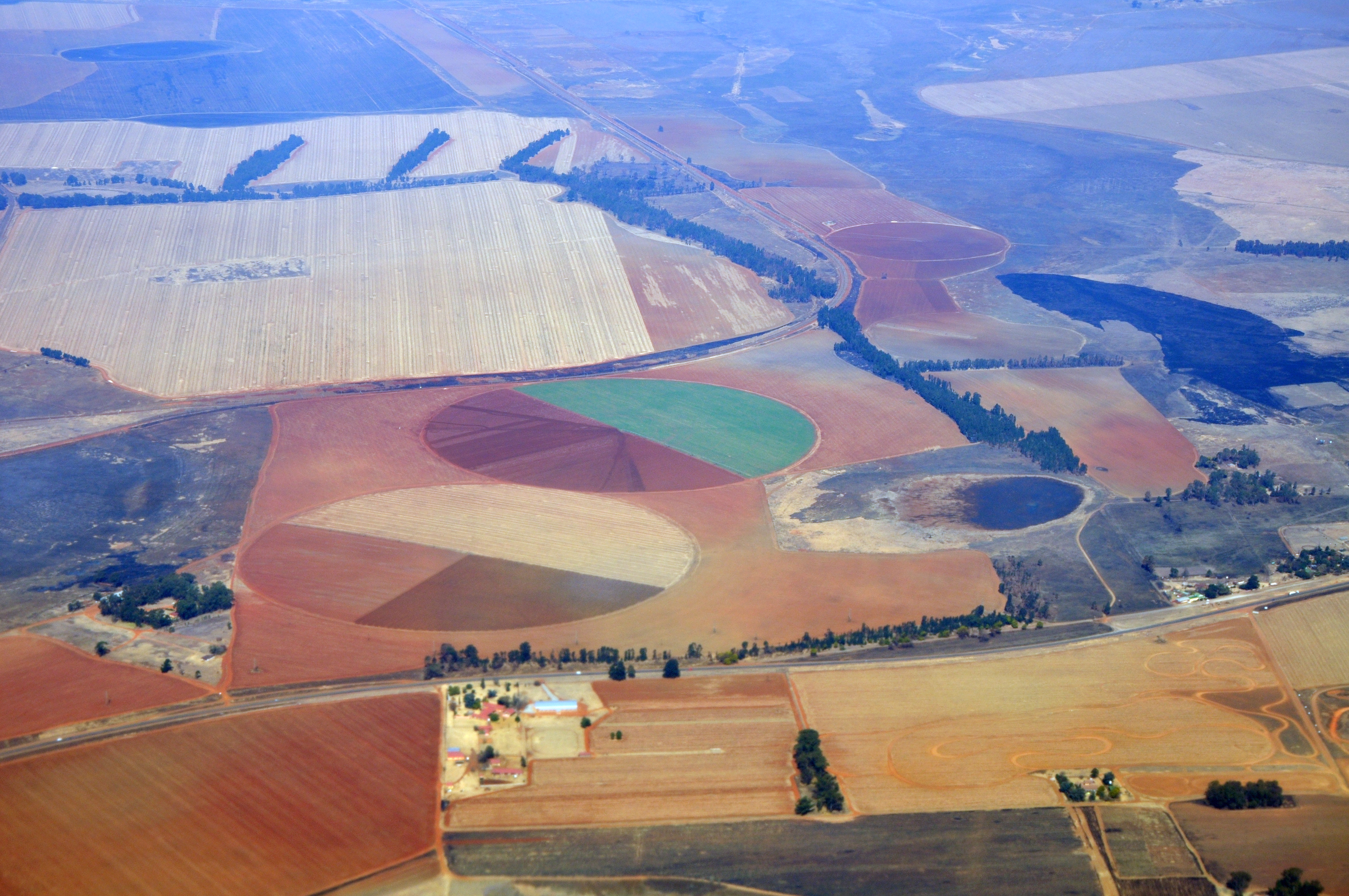 South Africa, Farm art near Bapsfontein